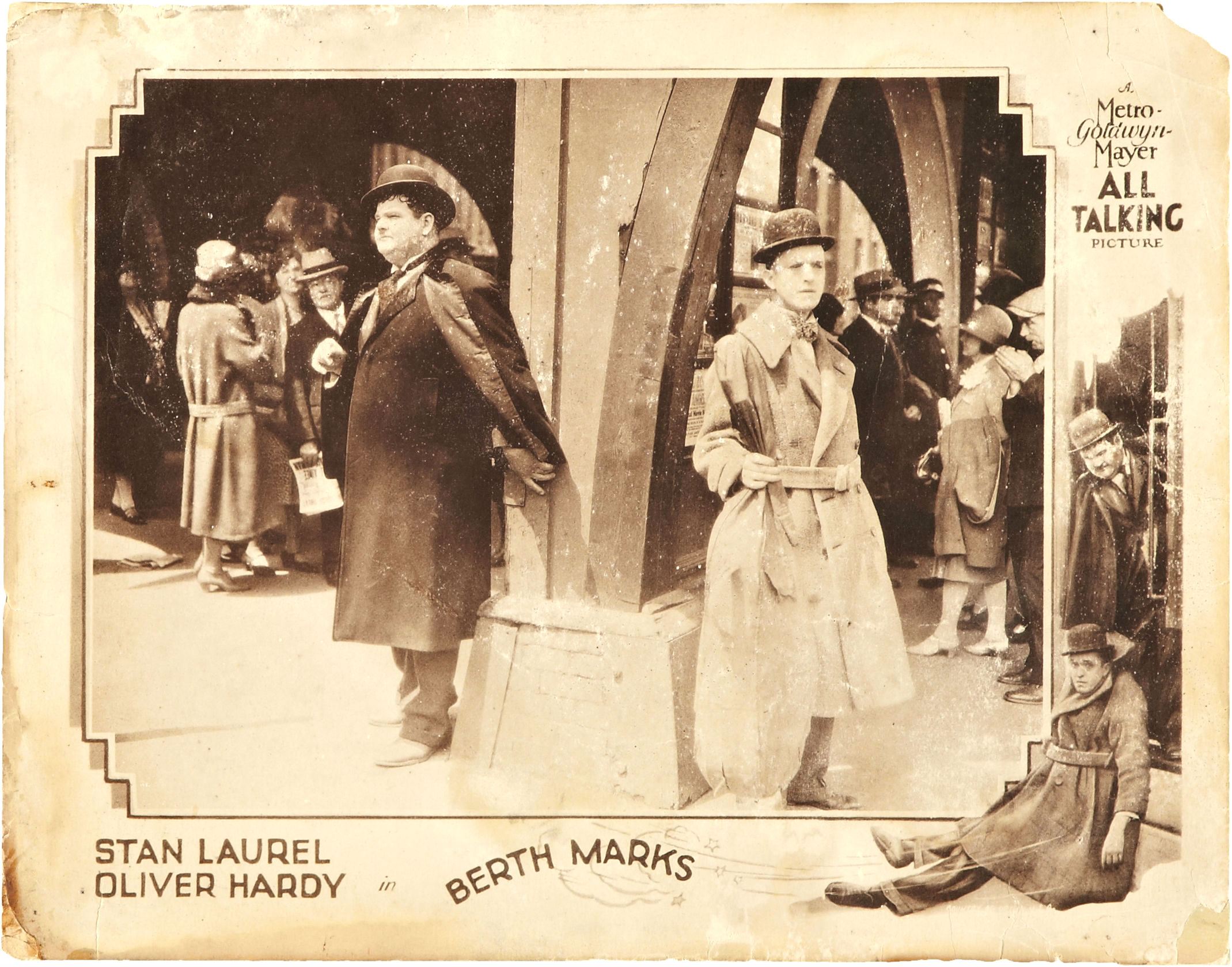 Lobby card for the American comedy film Berth Marks (1929). There are no copyright marks as can be seen at the link.